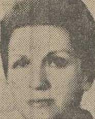 Ettela'at newspaper, No.14739, dated Tir 1, 1354 (22 June 1975), page 4.